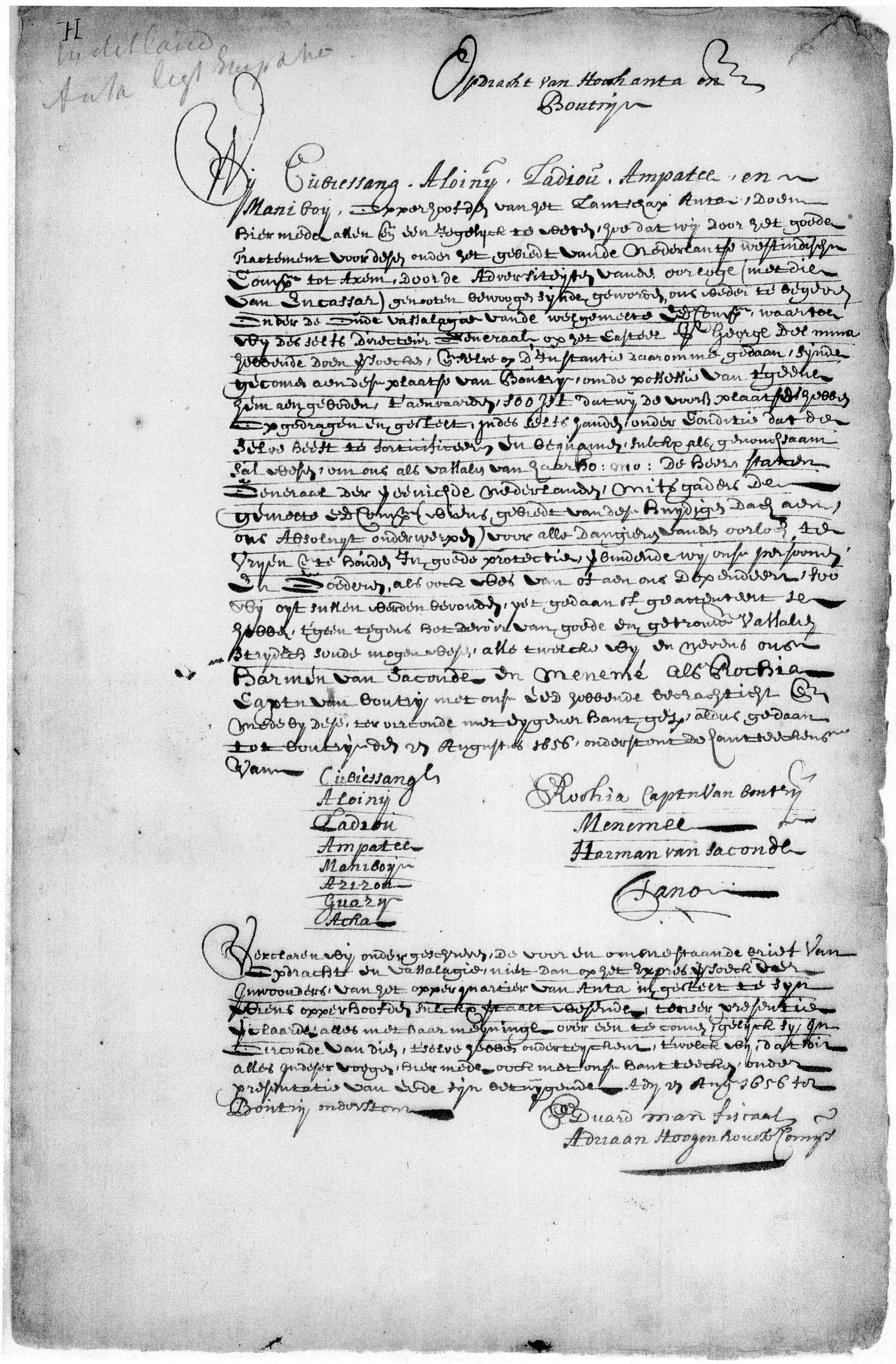 Treaty between the Dutch West India Company and the political leadership of Ahanta and Butre on the Gold Coast (current-day Ghana), 27 August 1656.